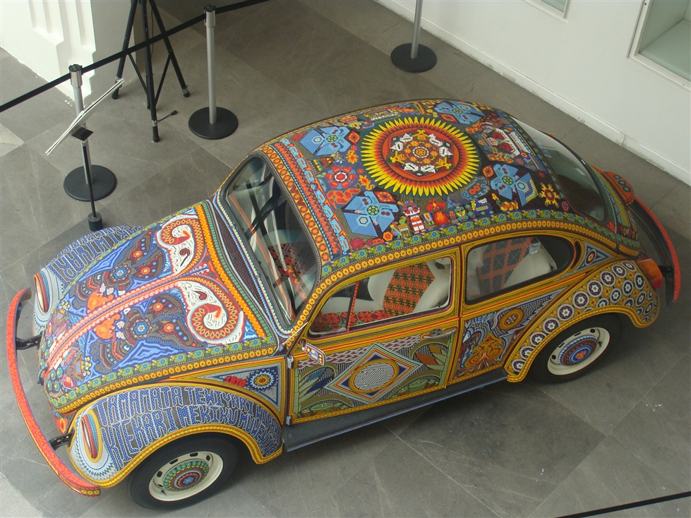 View of the Vochol, a Volkswagen Beetle covering in beads in Huichol design, from above